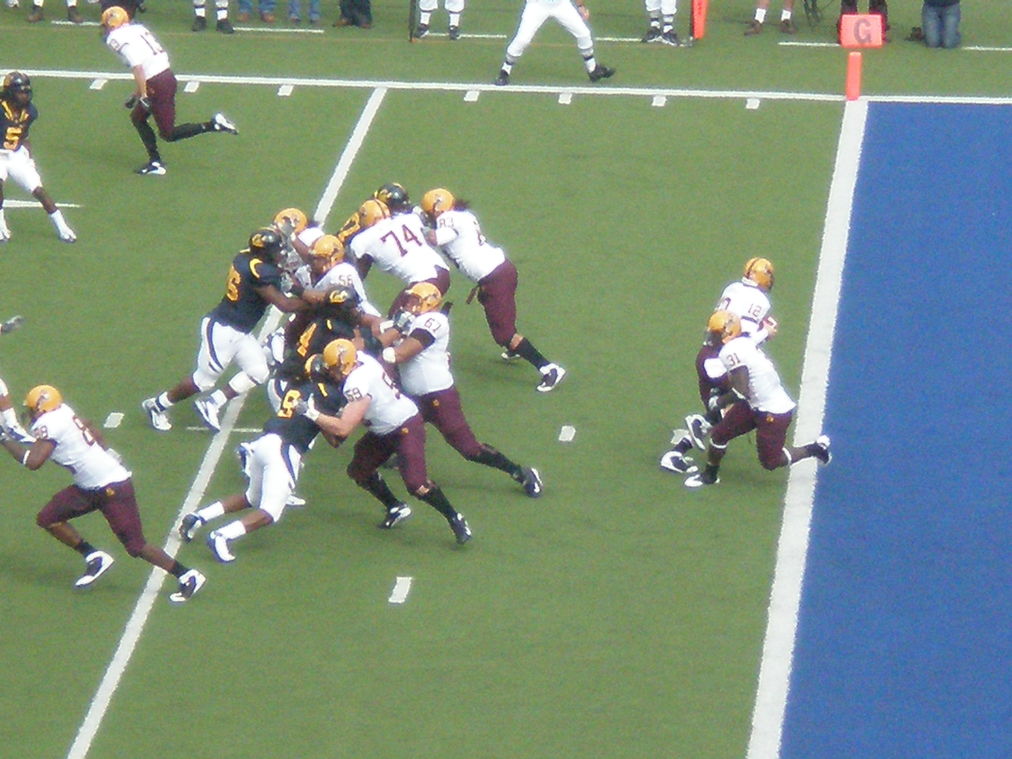 Arizona State Sun Devils quarterback Rudy Carpenter (#12) fakes a handoff to Dmitri Nance (#31) in an away game against the California Golden Bears. The Golden Bears won 24-14.